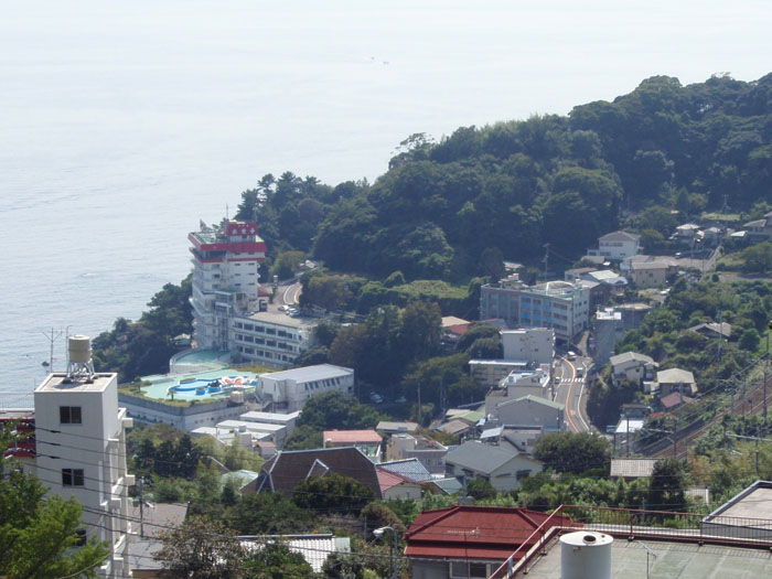 A view of Izusan onsen area , located in Atami city, Shizuoka prefecture, Japan.